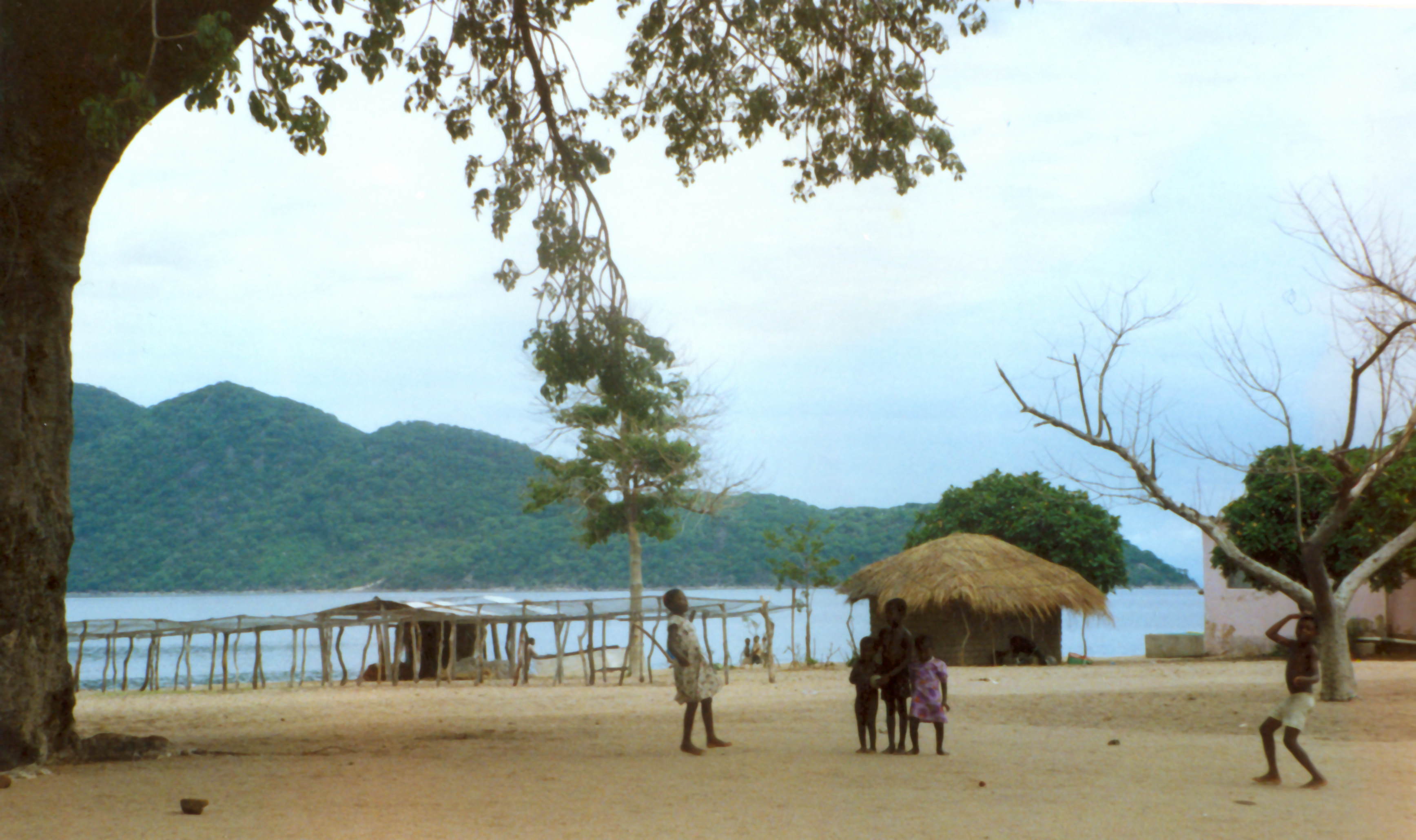 Children playing on the edge of Lake Malawi. Unesco World Heritage Site: Lake Malawi National Park